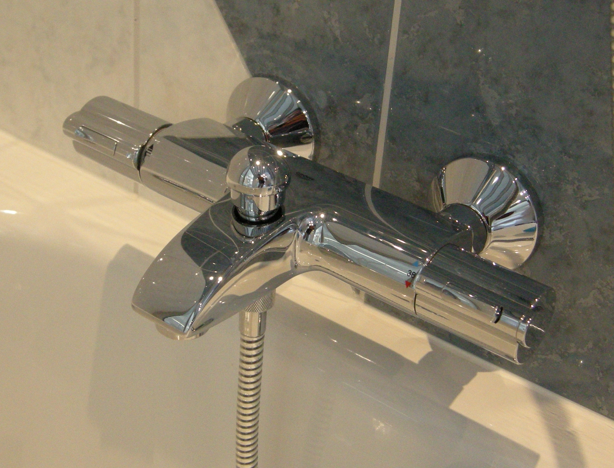 Bath tub thermostatic tap.